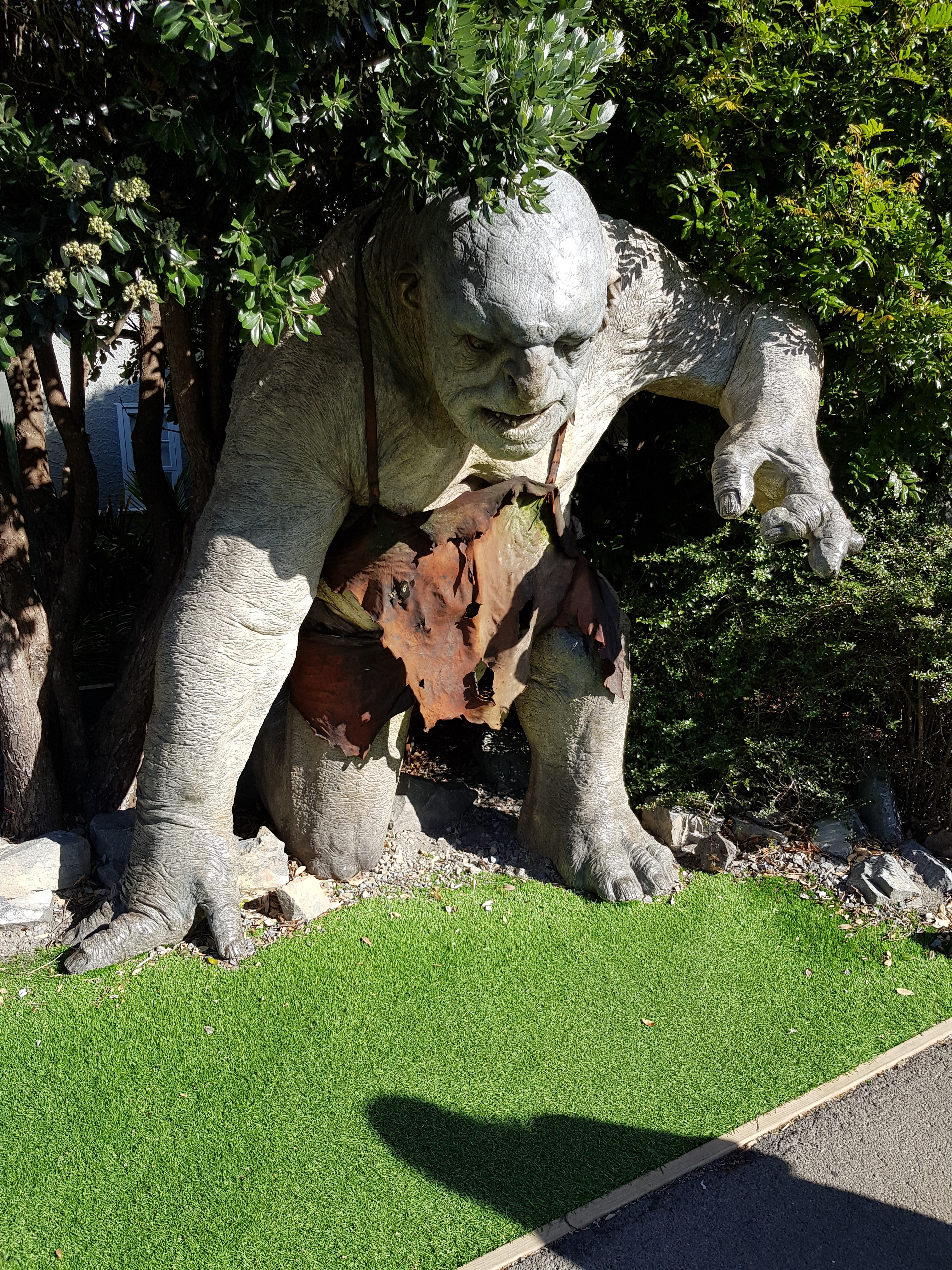 The three Stone trolls Tom, Bert, and William found at the Weta Cave in Wellington, New Zealand.